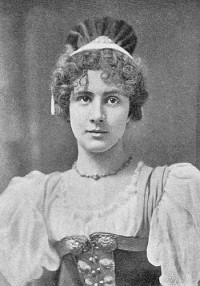 Florence Perry as Lisa in The Grand Duke, 1896.